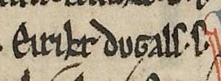 The name of Eiríkr Duggálsson (died 1287) as it appears on folio 122r of AM 45 fol (Codex Frisianus): "Eirikr Dvggalsson".